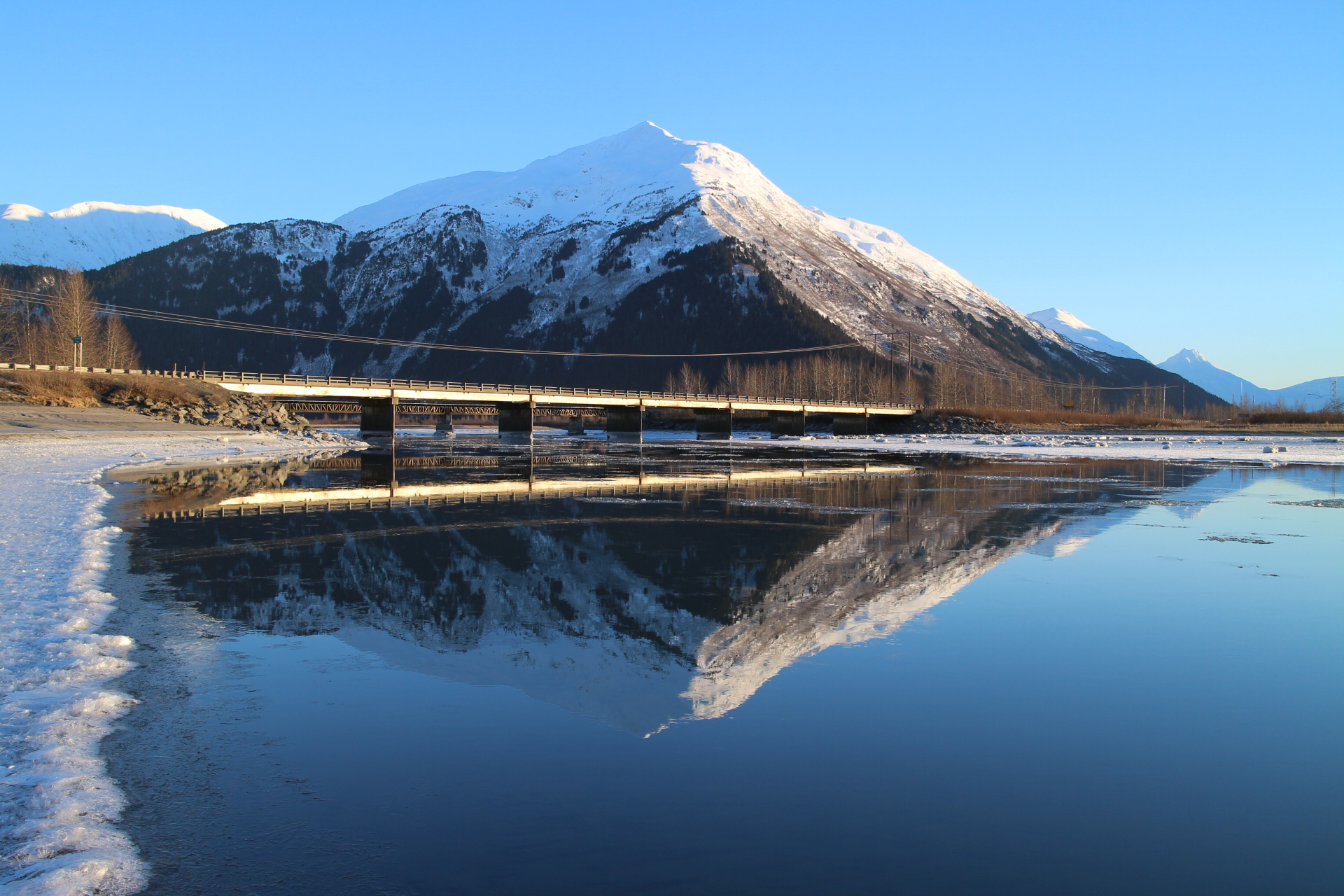 Bridge Across Twenty Mile River, Alaska